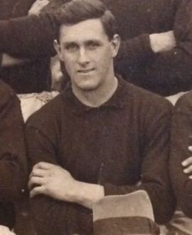 Photograph of Gordon Davie in 1924